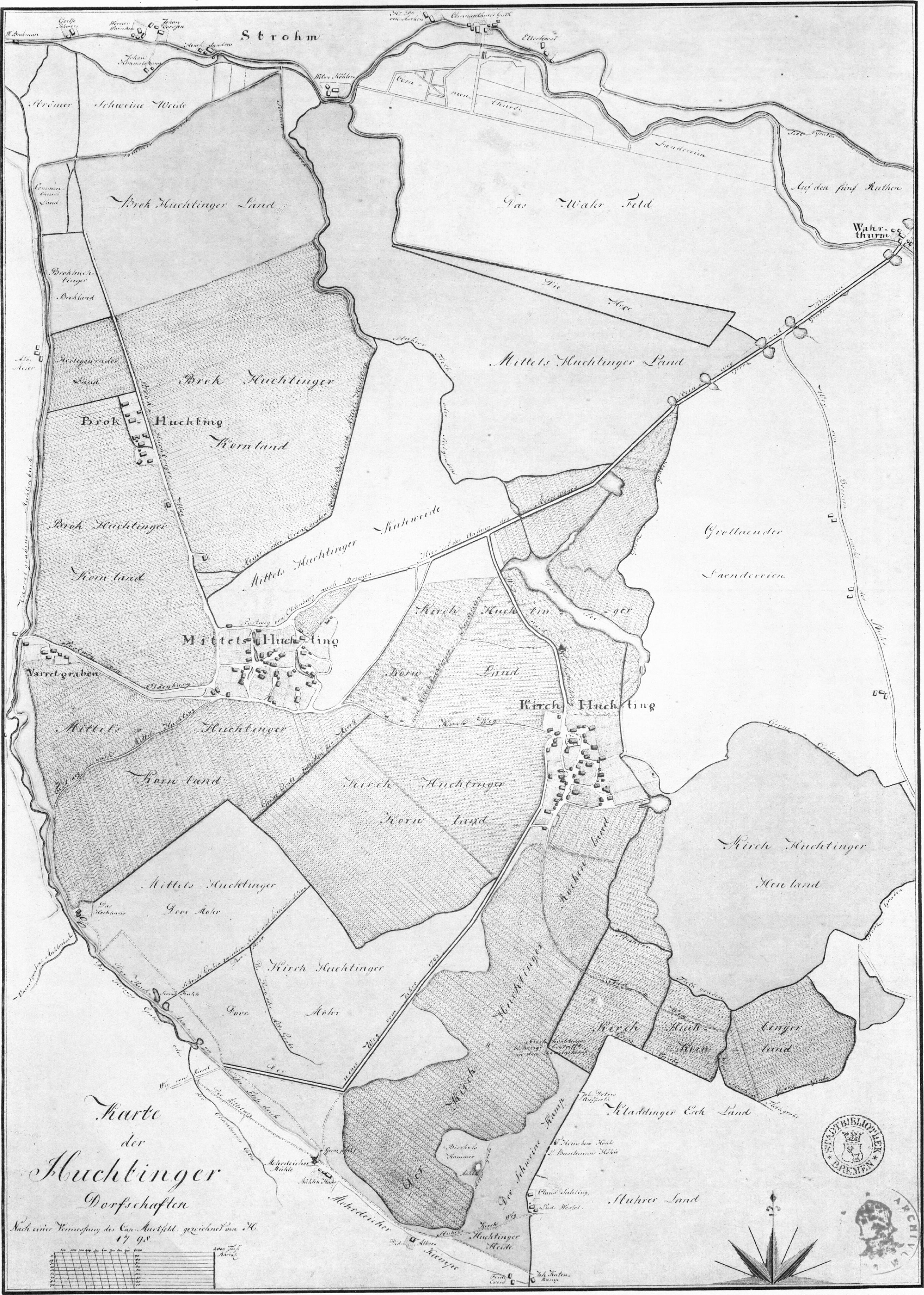 Original title: Map ot the villages of Huchting, surveyed by Carl Murtfeld, drawn by H(eineken)